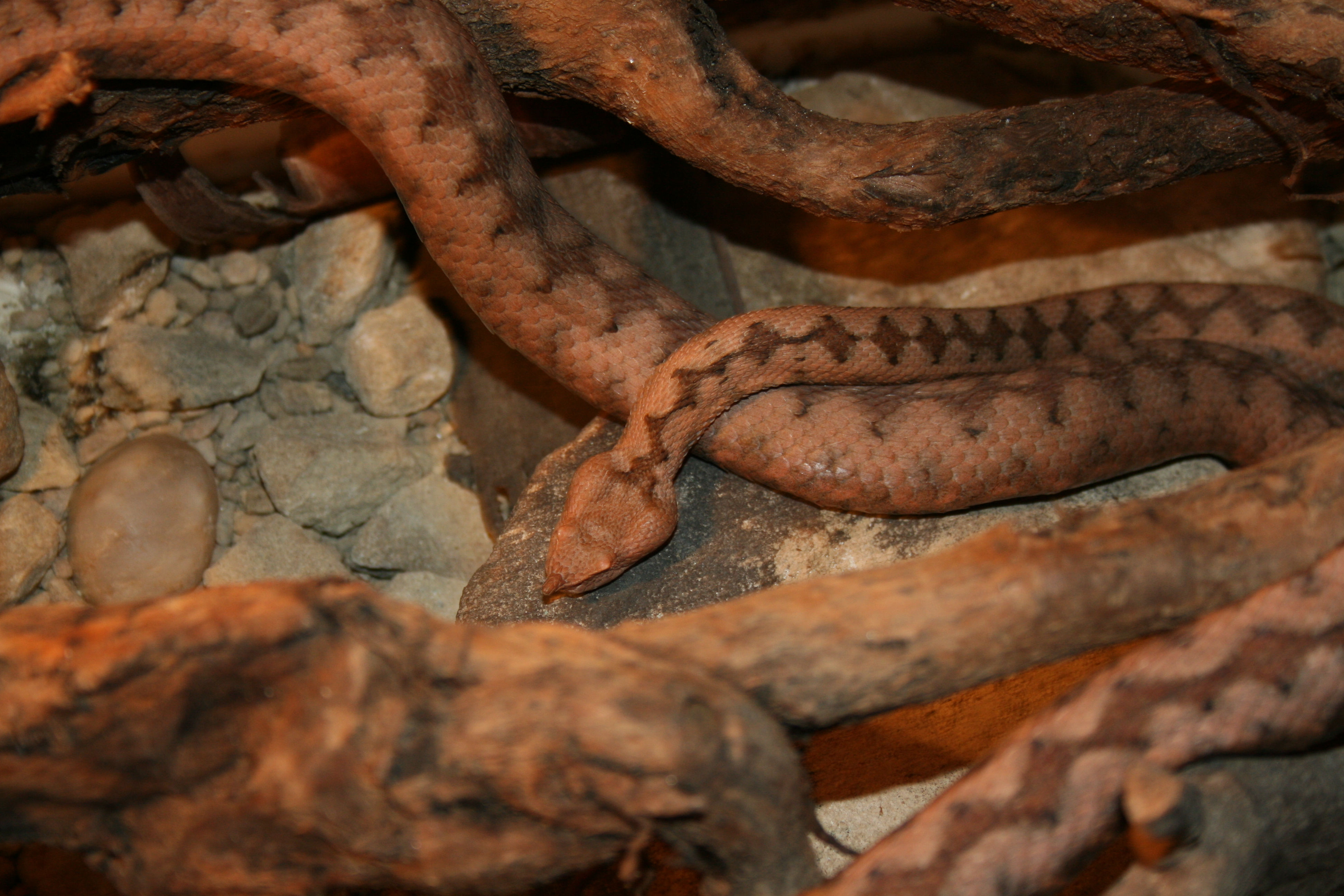 Vipera ammodytes in a terrarium.